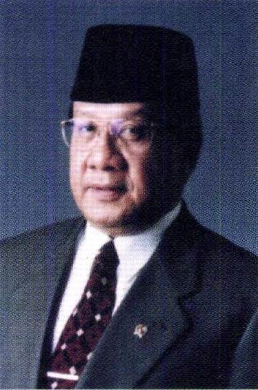 Official portrait of Akbar Tandjung as the member of the People's Representative Council in 1999.